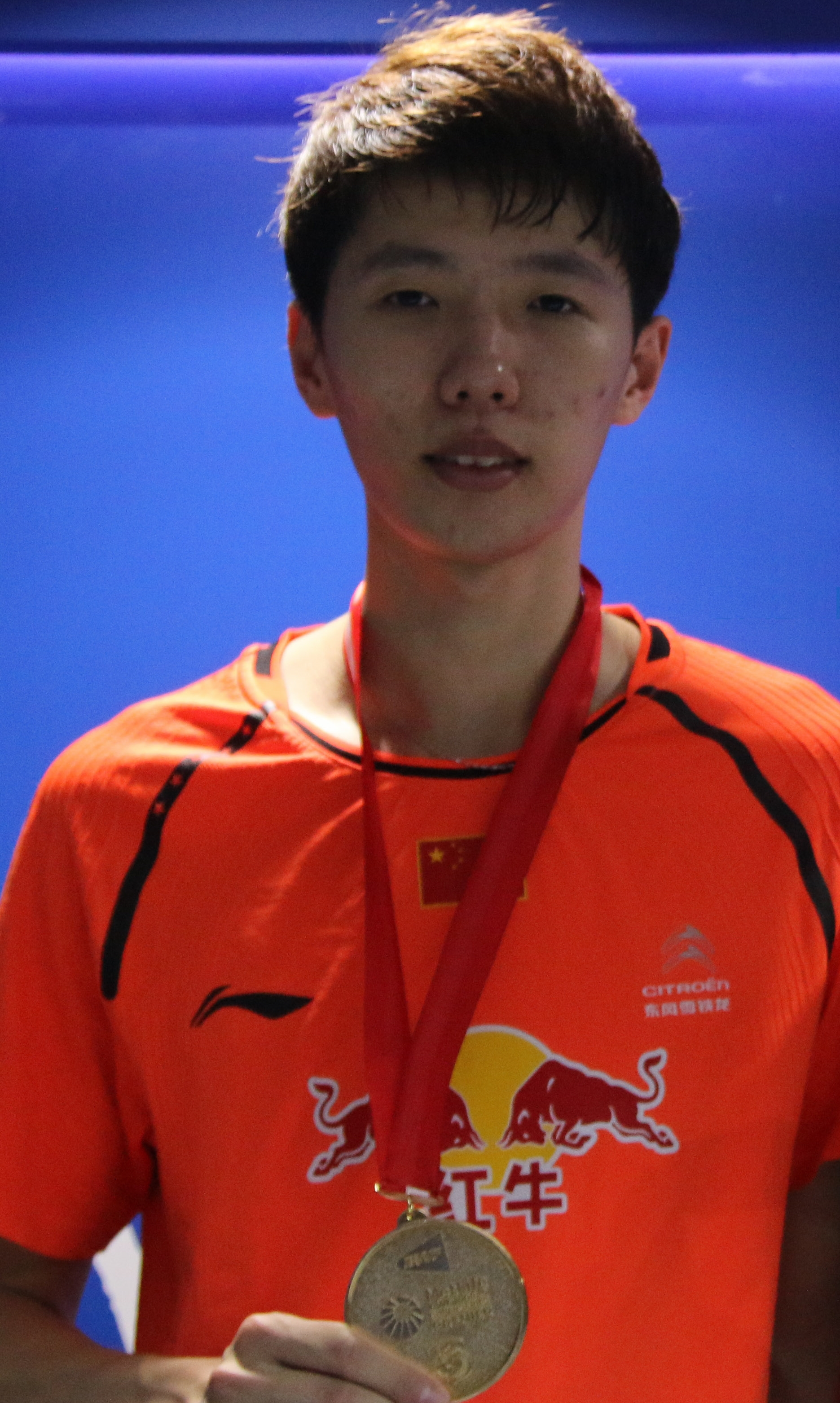 Li Junhui at Indonesia Open 2017 post mach press conference